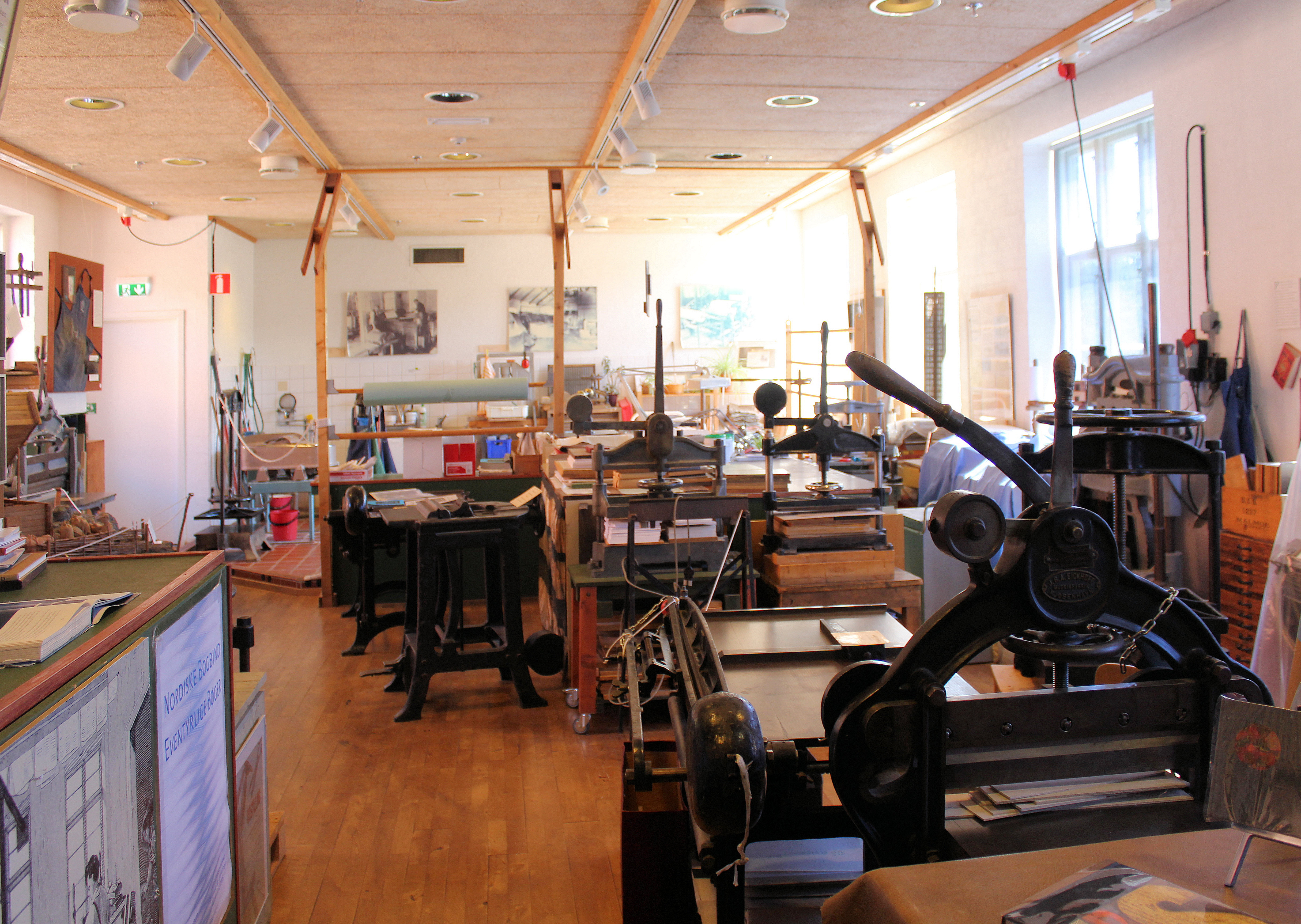 Helsingborg, open-air museum Fredriksdal, graphically museum